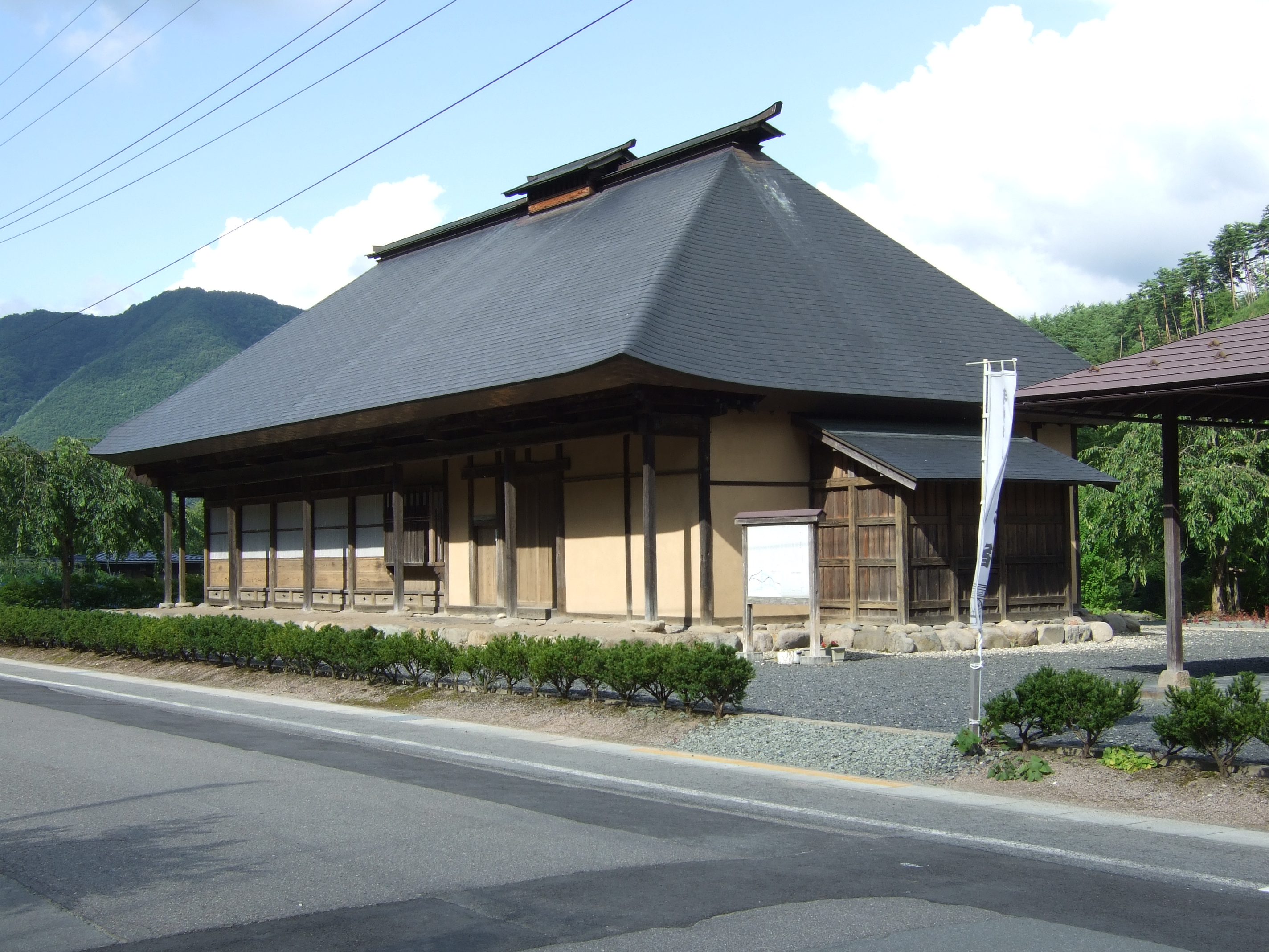 Takizawa-ya waki-honzin, the sub inn officially designated as a lodging for a daimyo in the Edo period, at Narage post town, in Kaminoyama city, Japan.